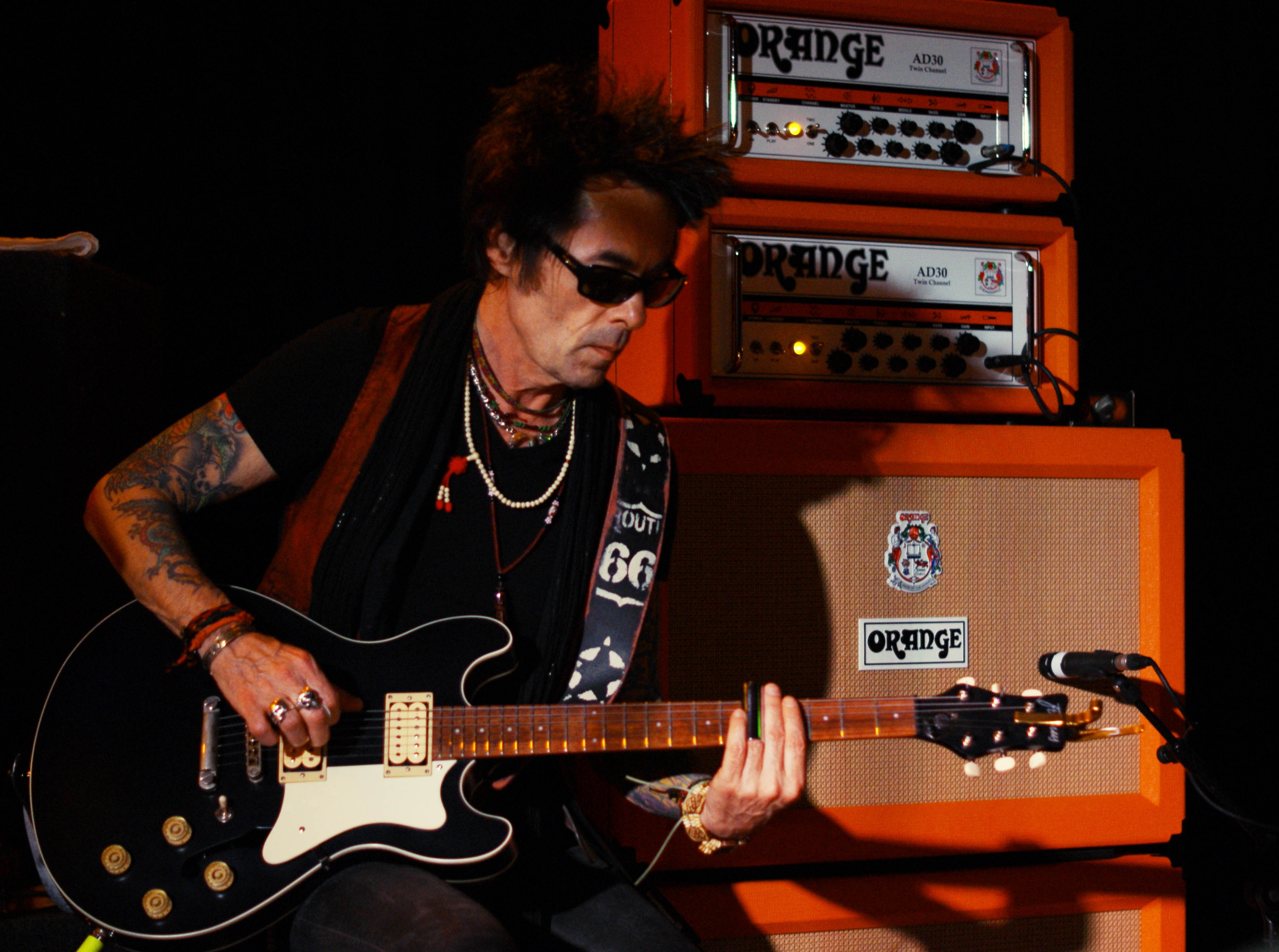 Earl Slick playing with The New York Dolls at Club Academy in Manchester, England on 29 March 2011.